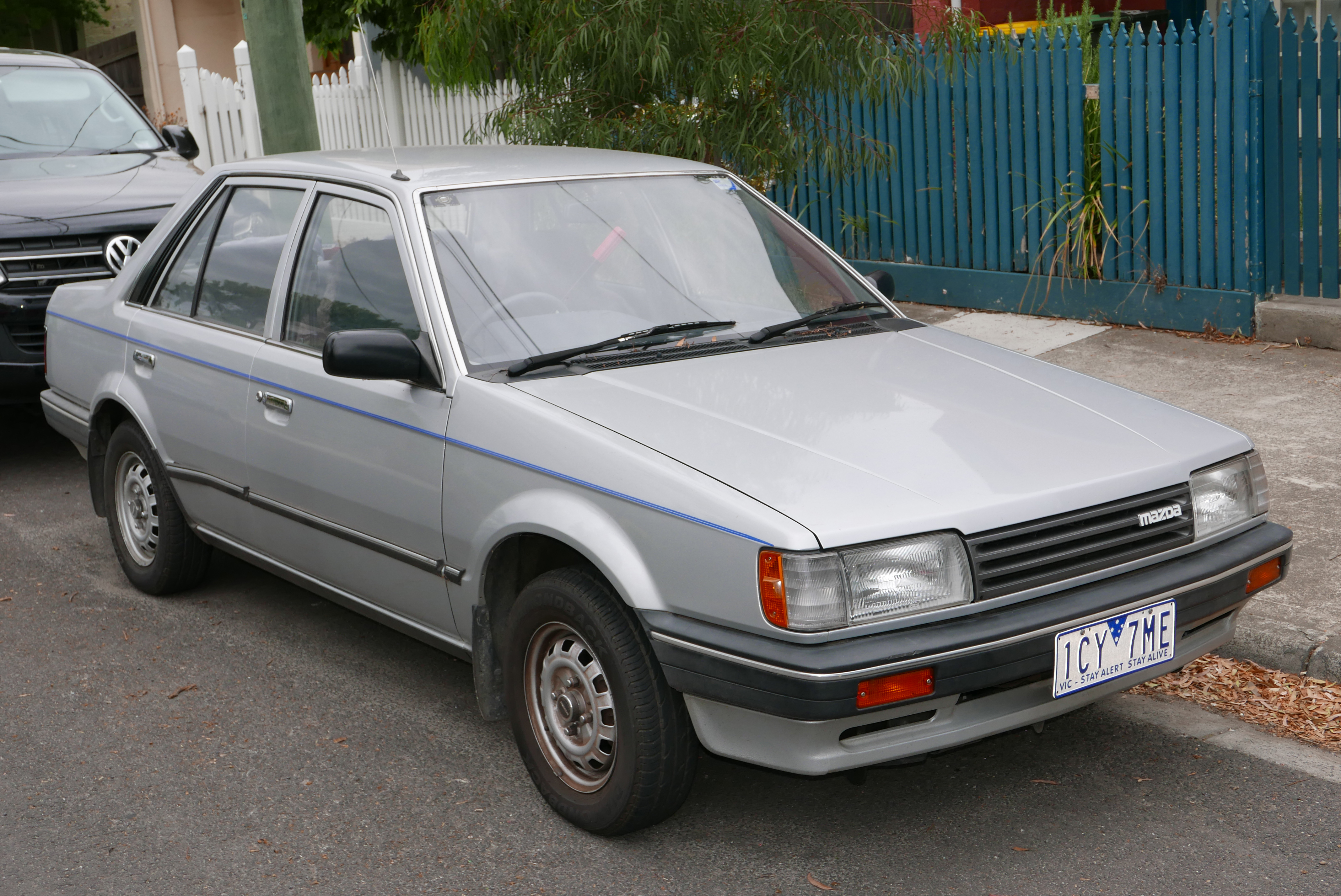 1986 Mazda 323 (BF) Deluxe sedan. Photographed in Brunswick East, Victoria, Australia. Vehicle registration enquiry results Jurisdiction Victoria Registration 1CY7ME Chassis code BF1061108284 Engine code B6096411 Compliance date 1986-01 Year of manufacture 1986